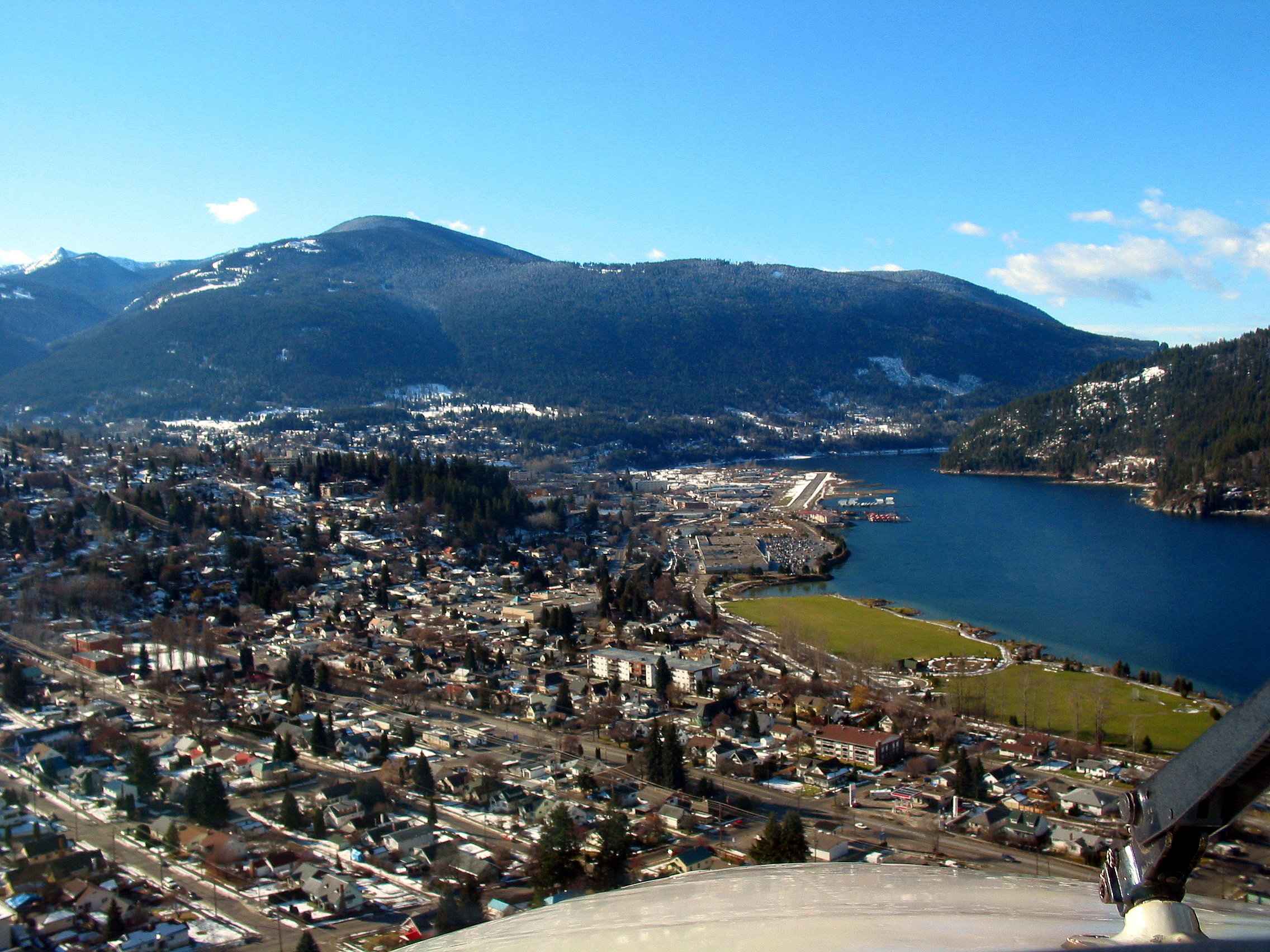 Nelson, BC